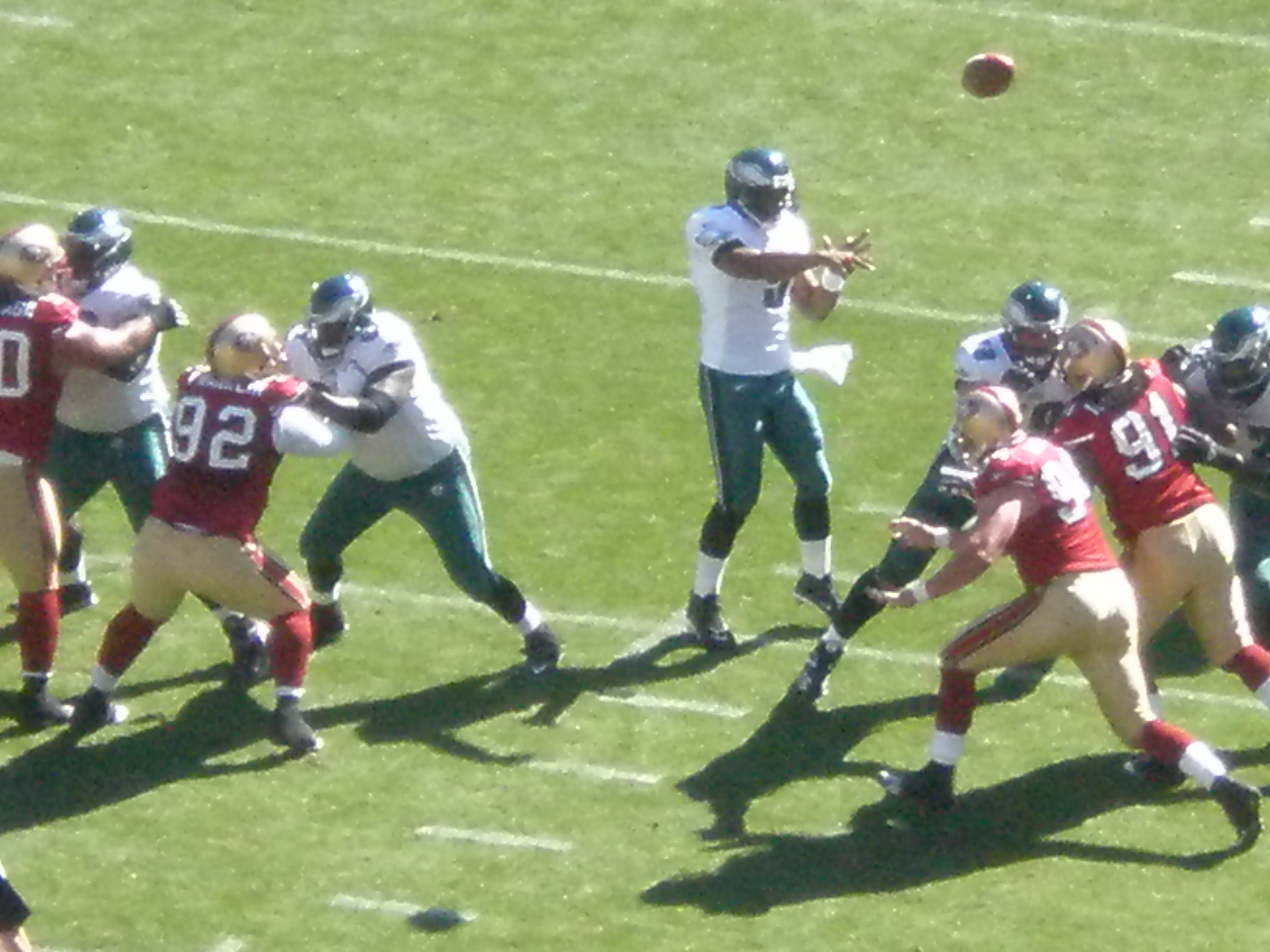 Philadelphia Eagles quarterback Donovan McNabb passes the ball during a regular season game against the San Francisco 49ers. The Eagles won 40-26.